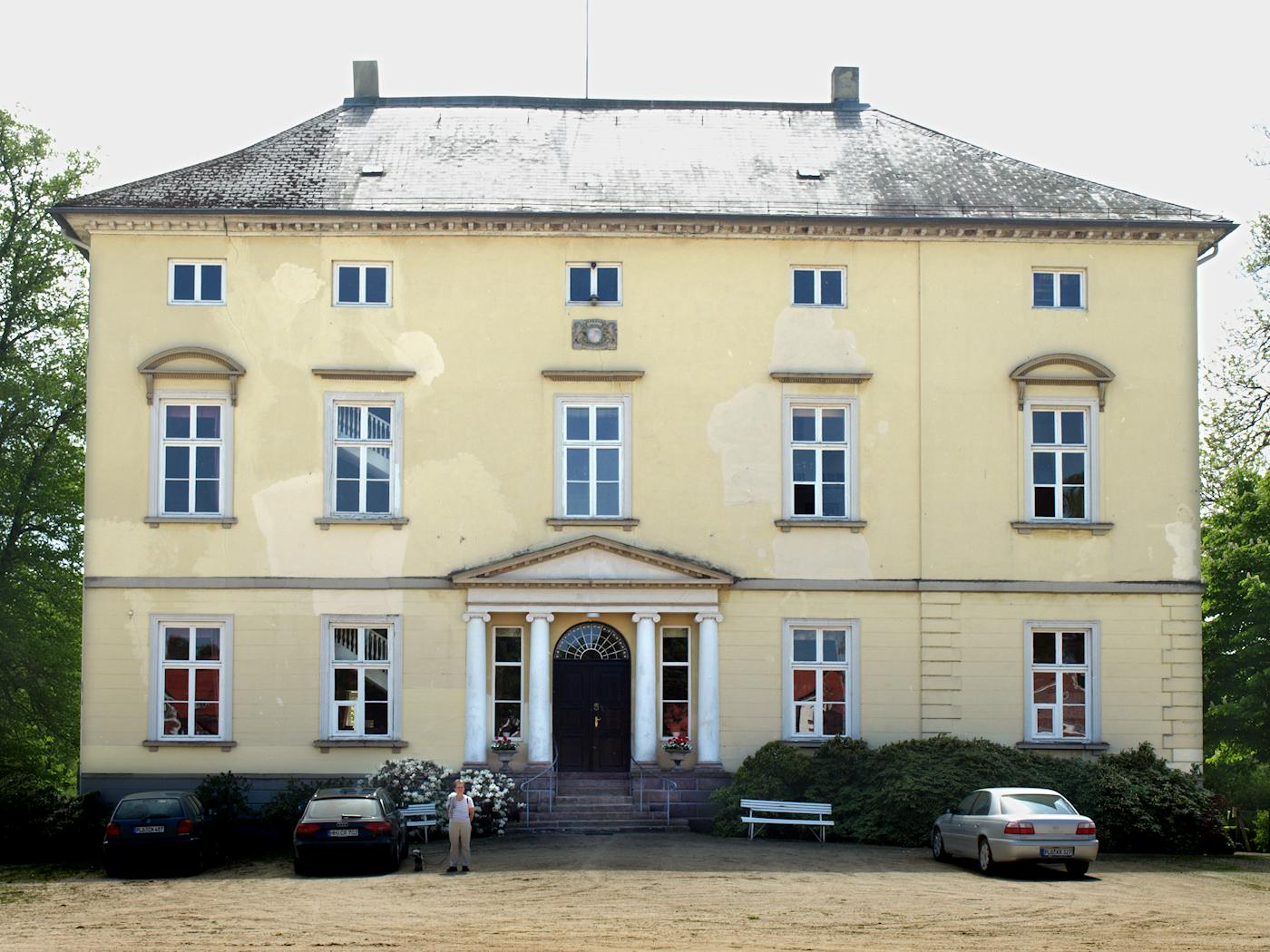 Manorhouse Rastorf(Schleswig-Holstein, Germany) , photo 2011